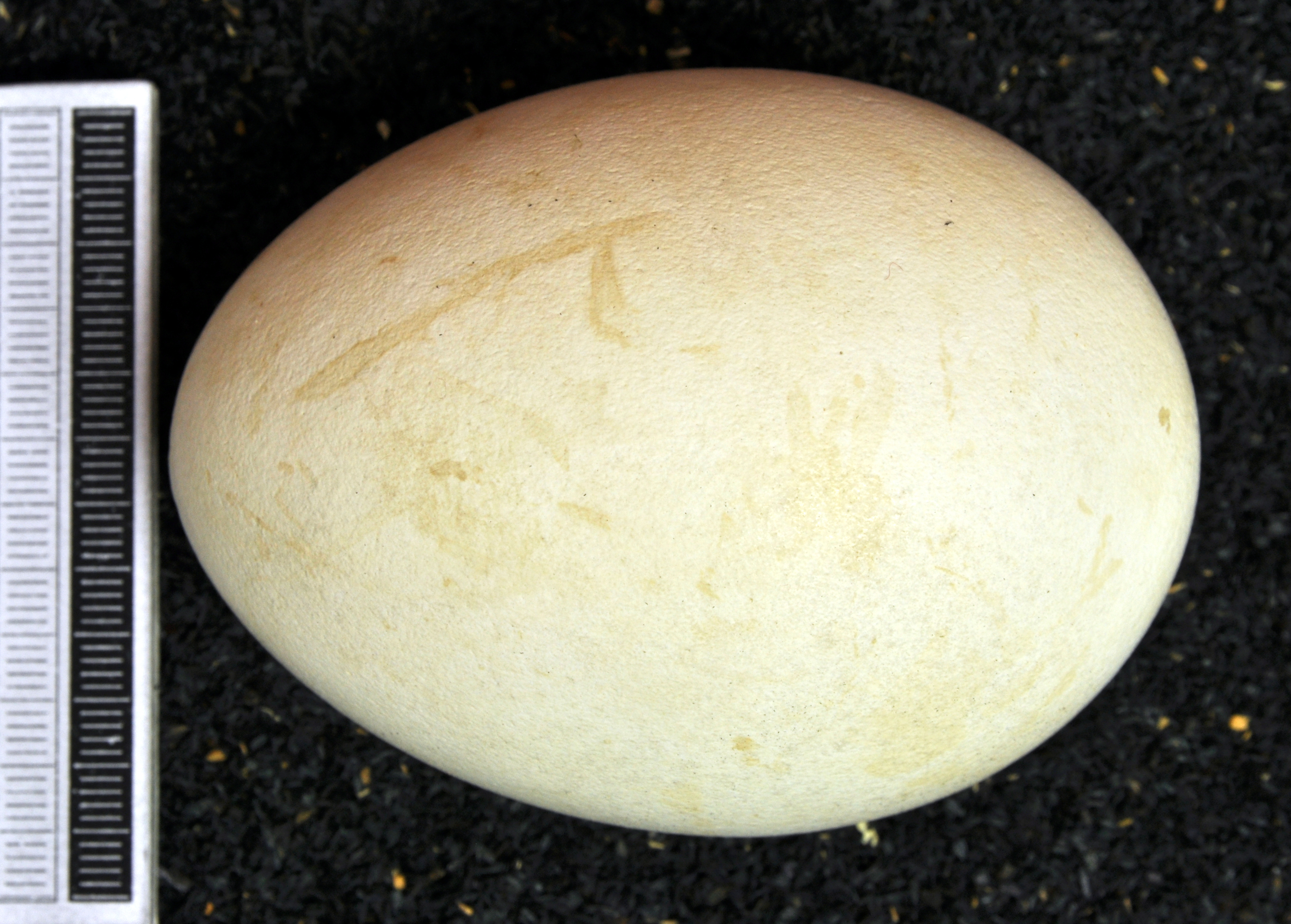 White-tailed eagle Haliaeetus albicilla , egg, Coll. Museum Wiesbaden